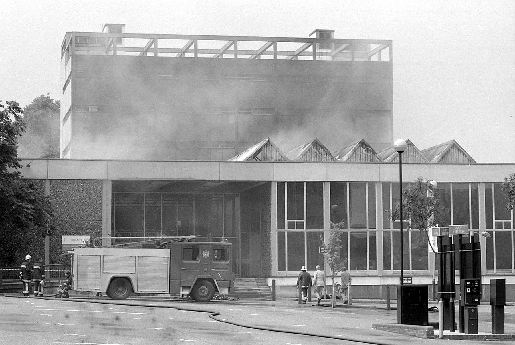 Norwich Central Library aflame, with a fire engine and firefighters outside.